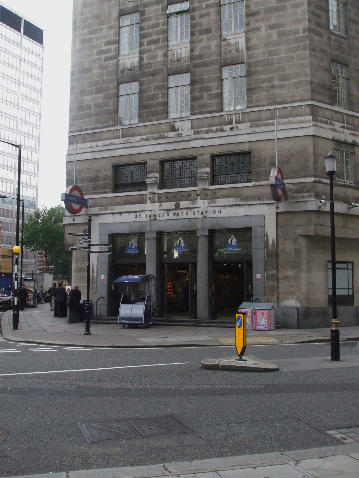 St James's Park tube station eastern entrance on The Broadway, located in the same building as London Underground headquarters